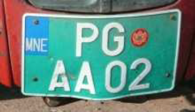 Agriculture plate